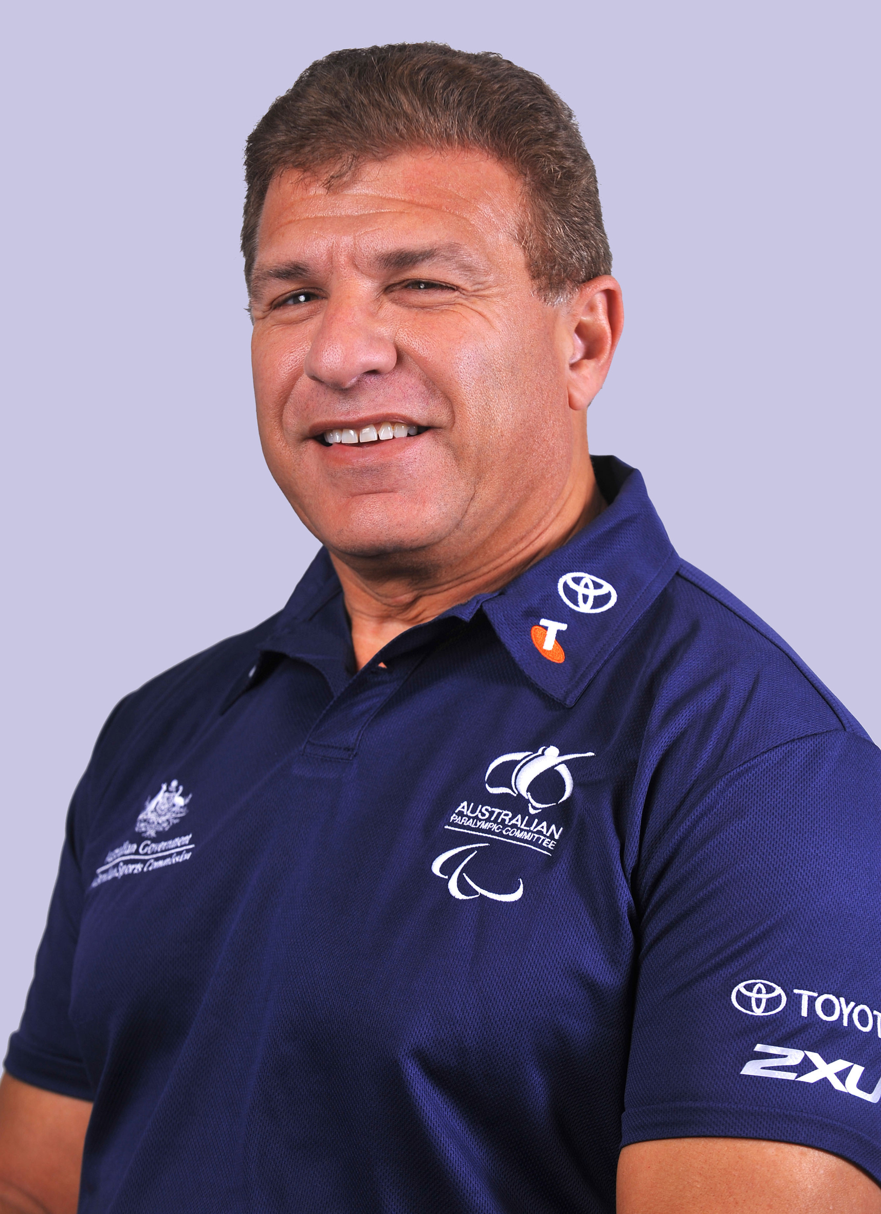 Portrait of Australian powerlifting coach Ray Epstein, 2012 Australian Paralympic (shadow) Team